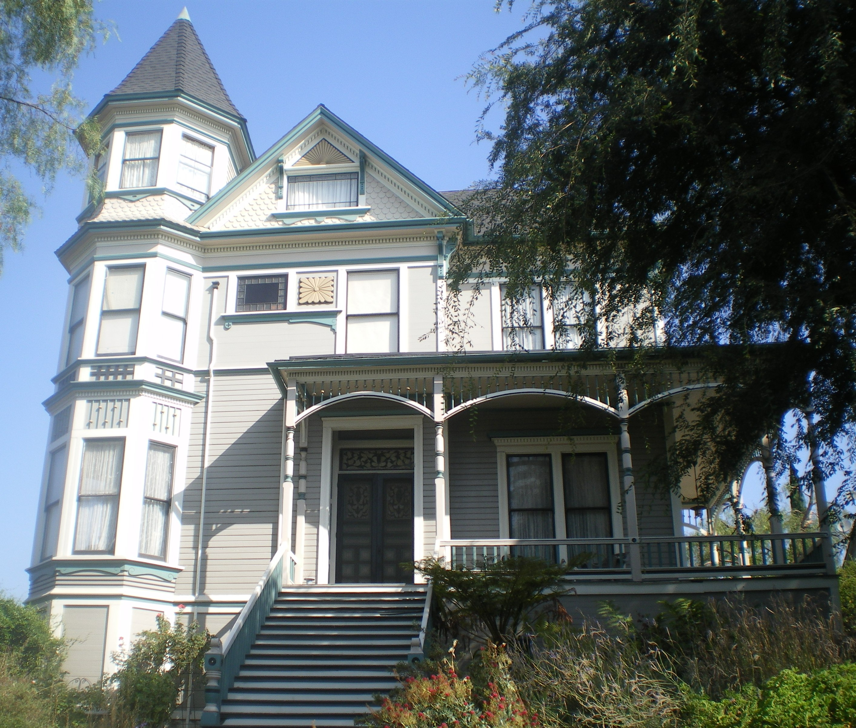 The Smith Estate — on El Mio Drive in the Highland Park district, Northeast Los Angeles, Southern California. A Los Angeles Historic-Cultural Monument, and on the National Register of Historic Places.